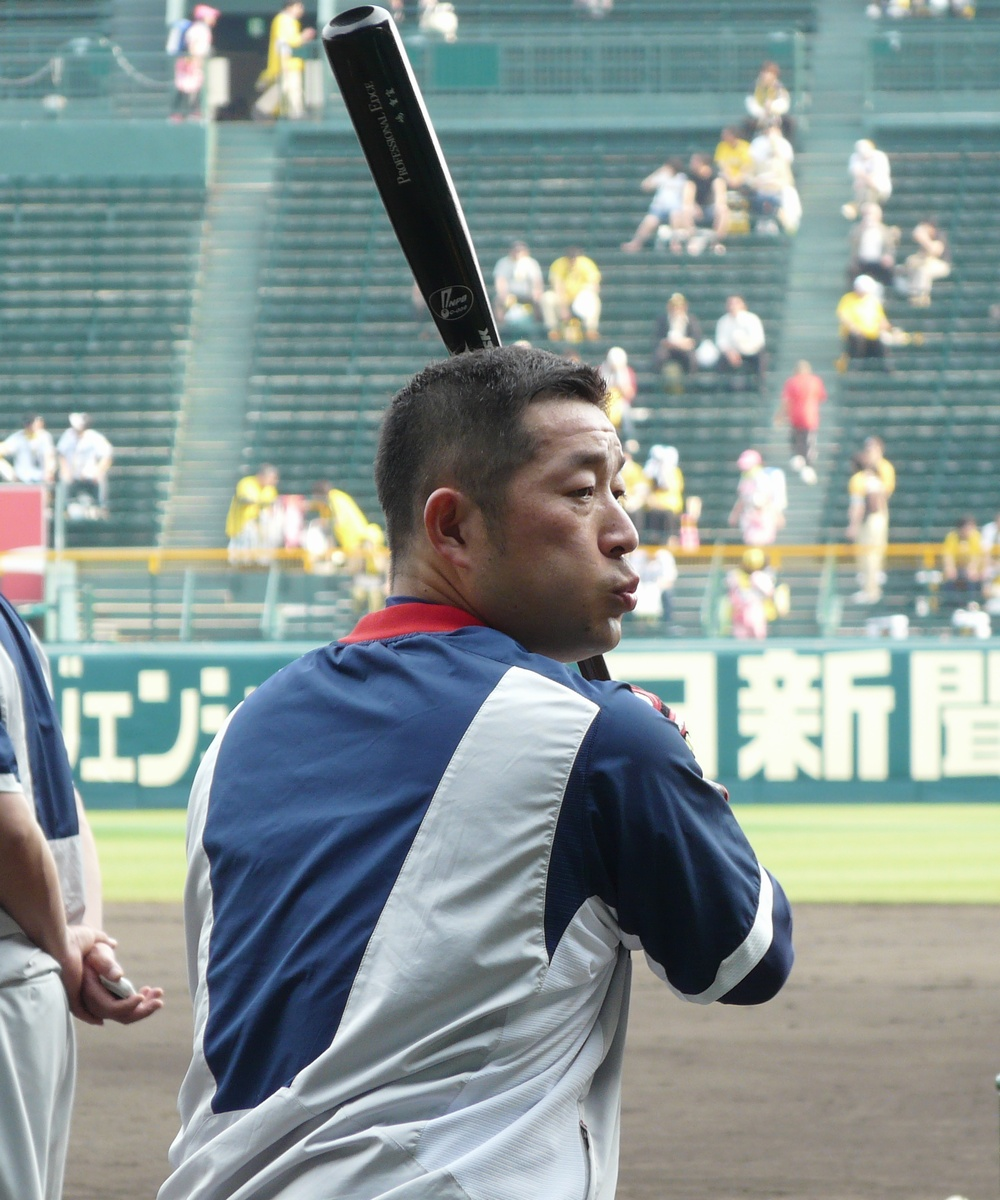 SL-Shigenobu-Shima20120528